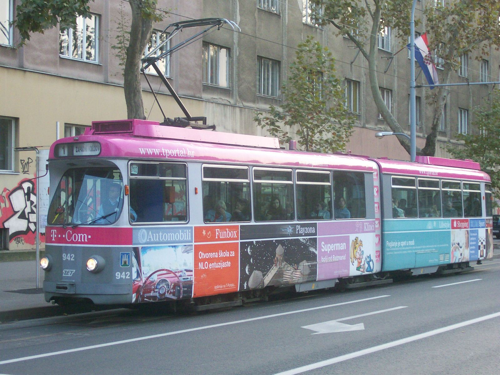 Düwag GT-6 Mannheimer, tip 941 (Zagreb, Croatia)